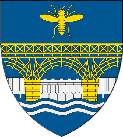 Coat of arms of Mehedinți County, Romania.